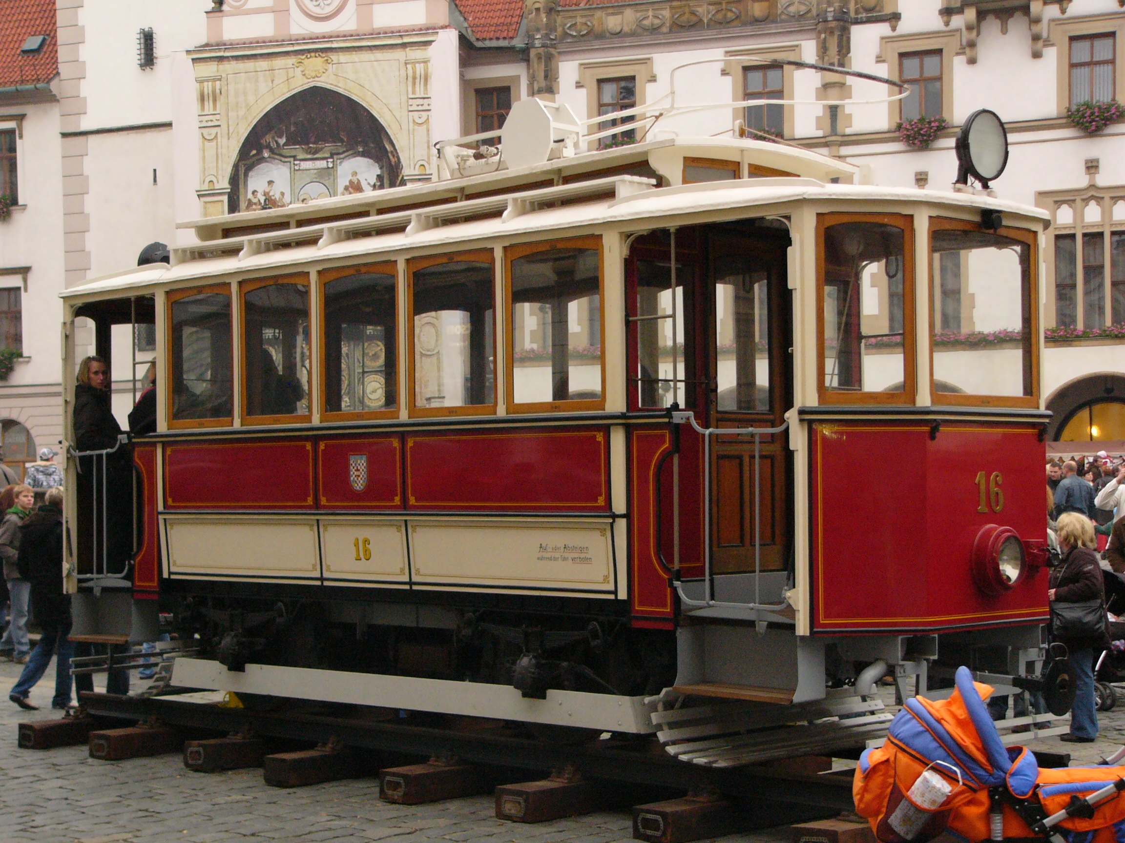 Tram number 16 manufactured in 1914 in Moravskoslezská vagónka in Studénka. This tram was active in Olomouc, photo taken in Olomouc (the Czech Republic).